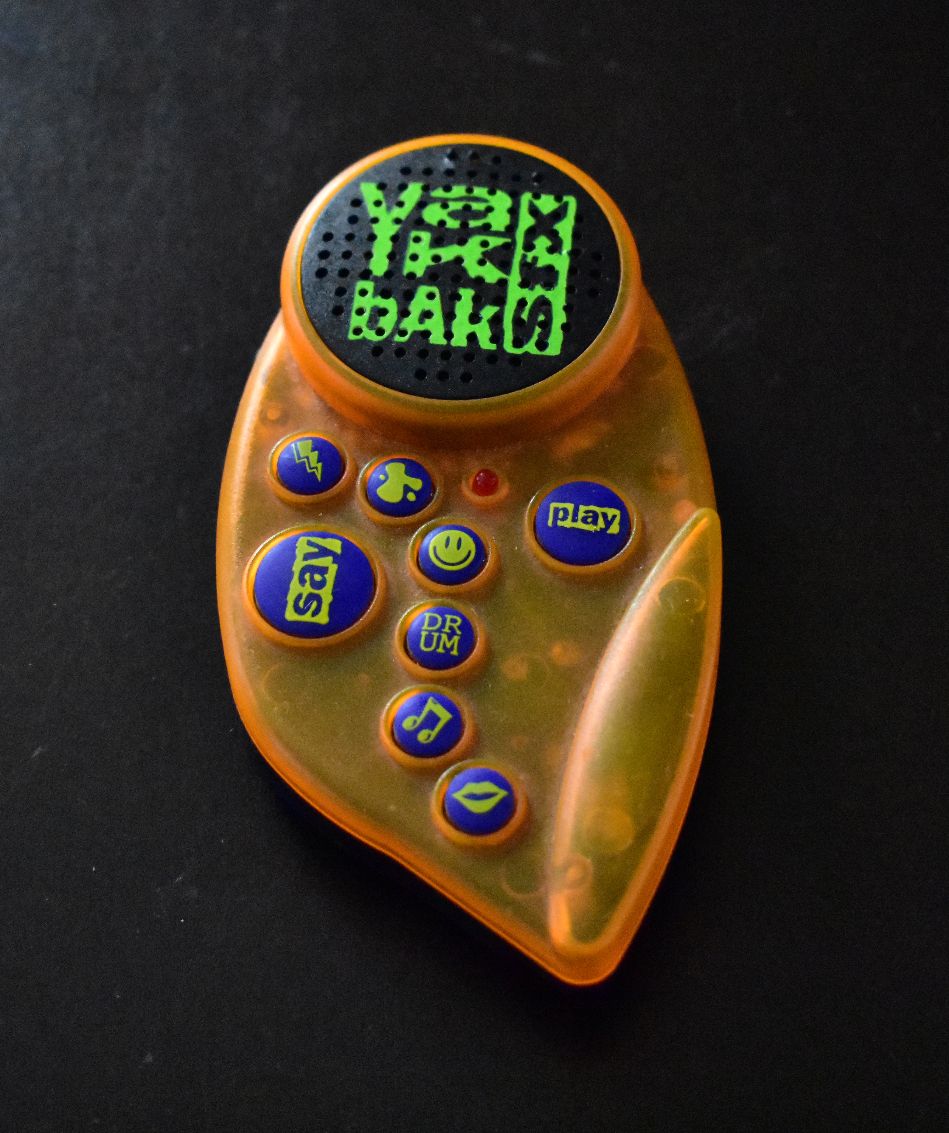 A Yak Bak SFX, a product from the Yak Bak handheld electronic voice-recording line of toys developed by Yes! Gear